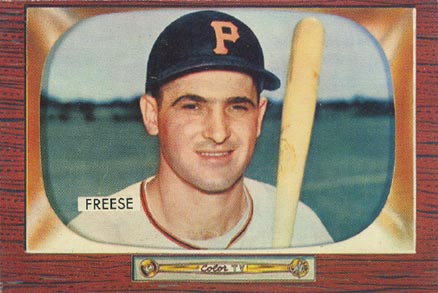 1955 Bowman baseball card of George Freese of the Pittsburgh Pirates #85. PD-not-renewed.